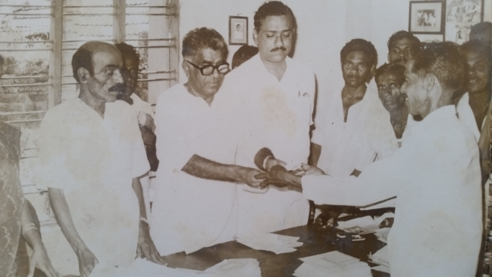 Distributing Pension to workers through bank